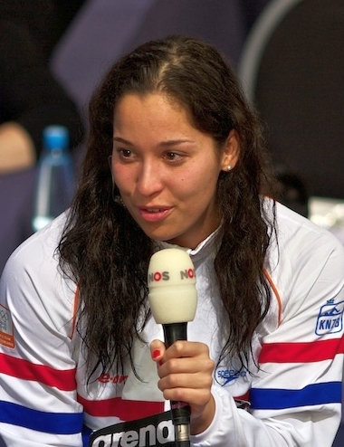 Ranomi Kromowidjojo, giving an interview during the European short course championships 2010 Eindhoven, Netherlands.